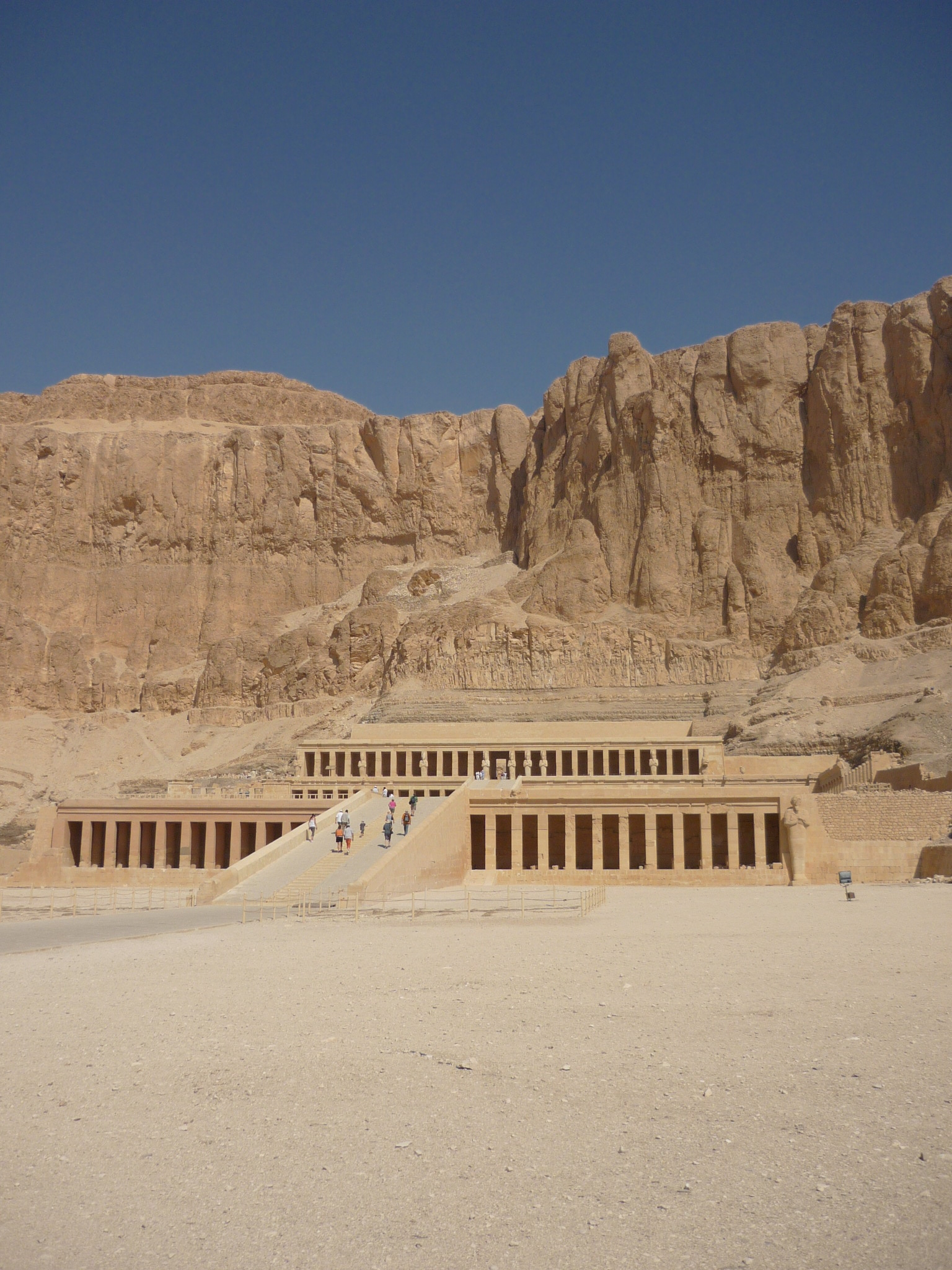 Hatshepsut temple, Deir el-Bahari, Theban Necropolis, Egypt